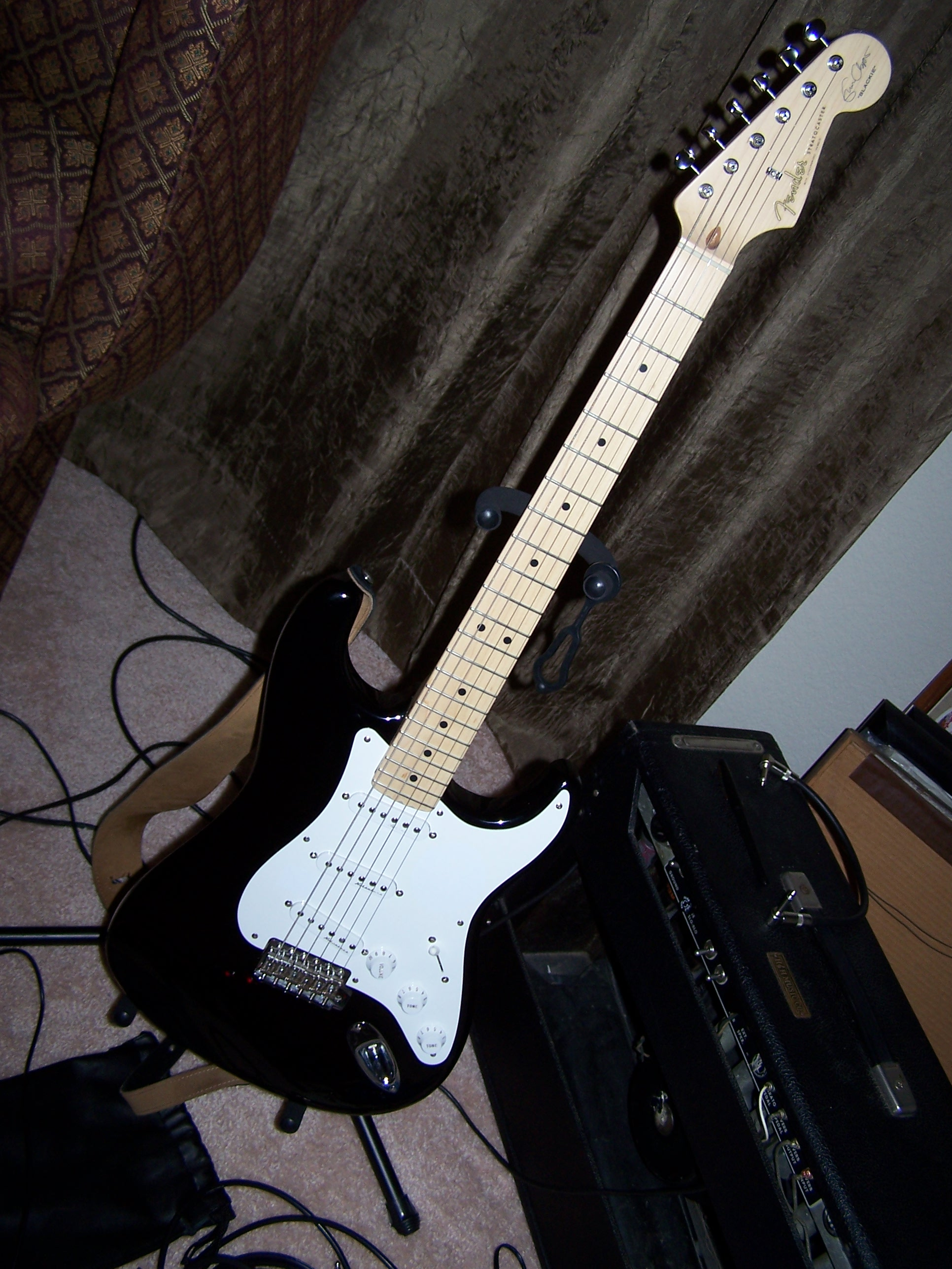 A picture of a black fender stratocaster